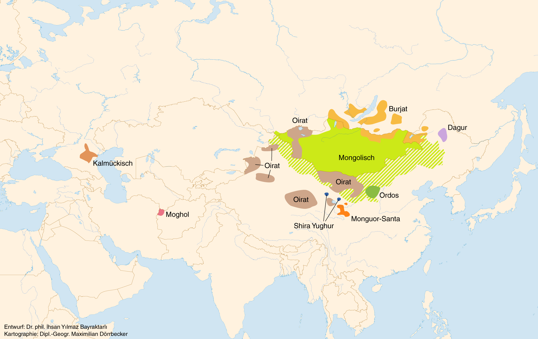 Linguistic maps of the Mongolic languages